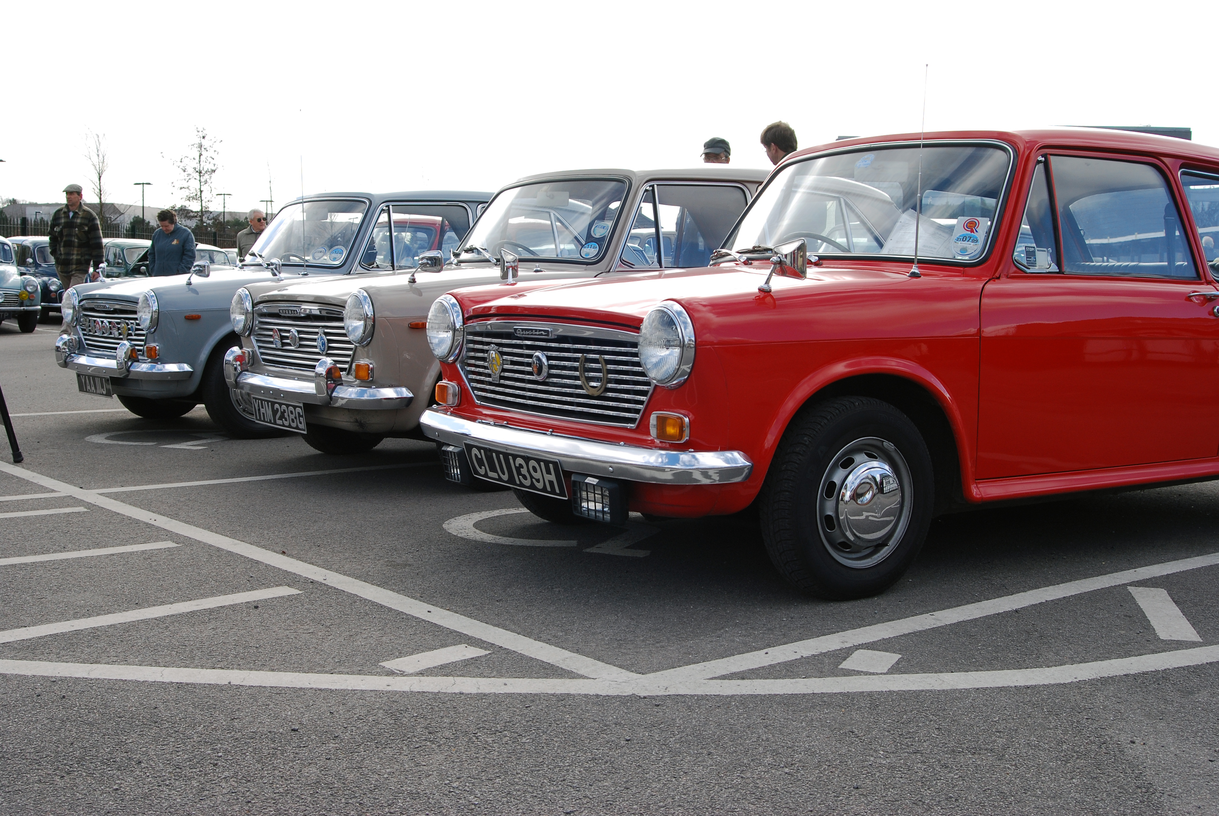 Gray car 1970 Morris 1100. Beige car 1969 Morris 1100. Red car 1970 Austin 1100. Brooklands,Mar 2009